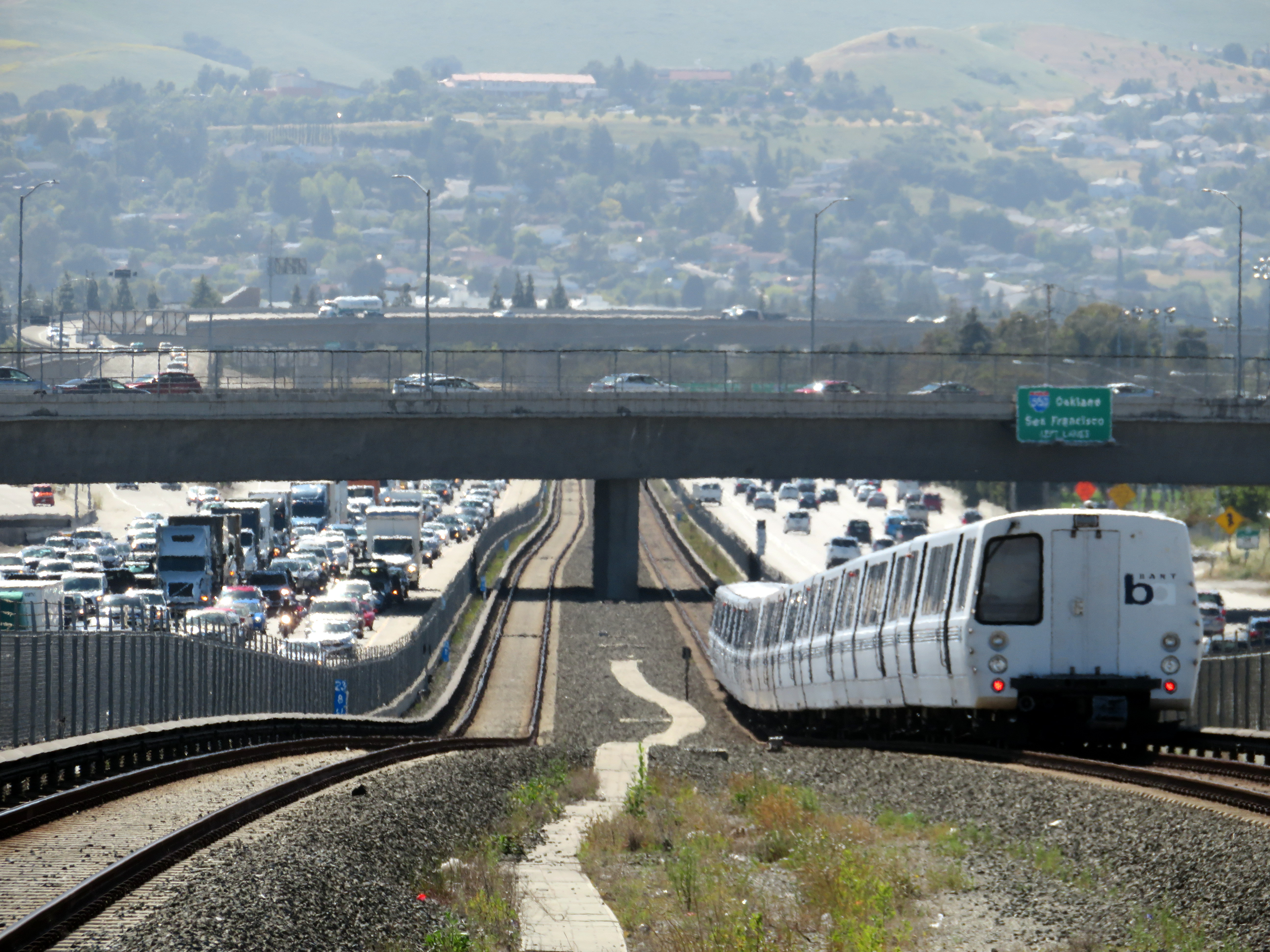 A Daly City-bound BART train west of Dublin/Pleasanton station in May 2018